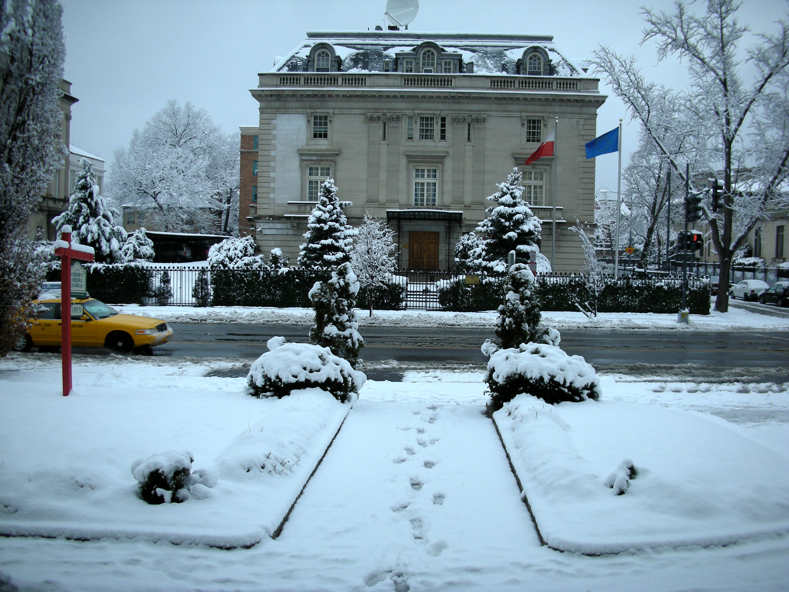 Embassy of Poland in Washington.Embajada polaca